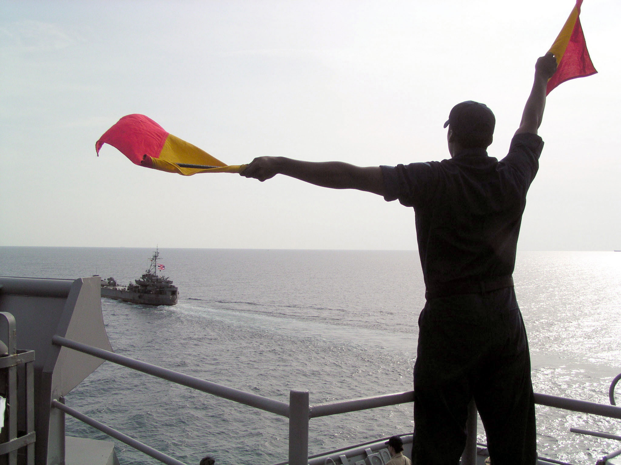 South China Sea (Jun. 11, 2003) -- Signalman Seaman Adrian Delaney practices his semaphore aboard the amphibious dock landing ship USS Harpers Ferry (LSD 49) during an at-sea training evolution with the Royal Thai Navy tank landing ship Her Thai Majesty’s Ship (HTMS) Prathong (LST 715) during the Thailand phase of exercise Cooperation Afloat Readiness and Training (CARAT). CARAT is a regularly scheduled series of bi-lateral military training exercises between the U.S. and several Association of Southeast Asian Nations (ASEAN). U.S. Navy photo by Journalist 3rd Class Alicia T. Boatwright. (RELEASED)